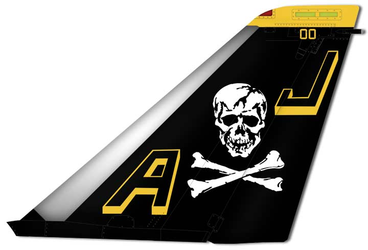 The tail of a US Navy F-14A Tomcat, belonging to VF-84, the "Jolly Rogers". Original created in Adobe Photoshop by Erik Hess in 2004.